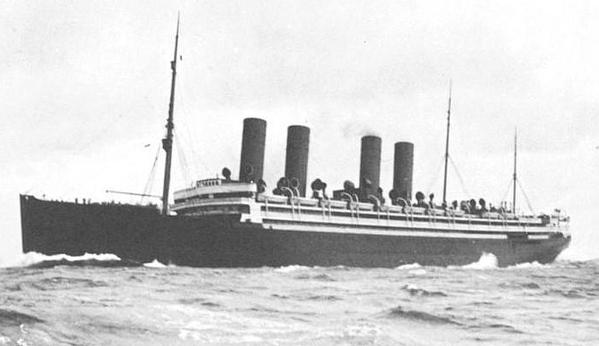 The SS Kronprinzessin Cecilie at sea in circa 1910